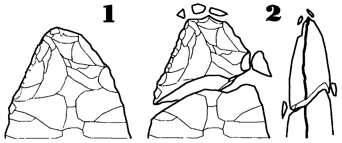 Didactic drawing about the breaking of a hand axe tip's